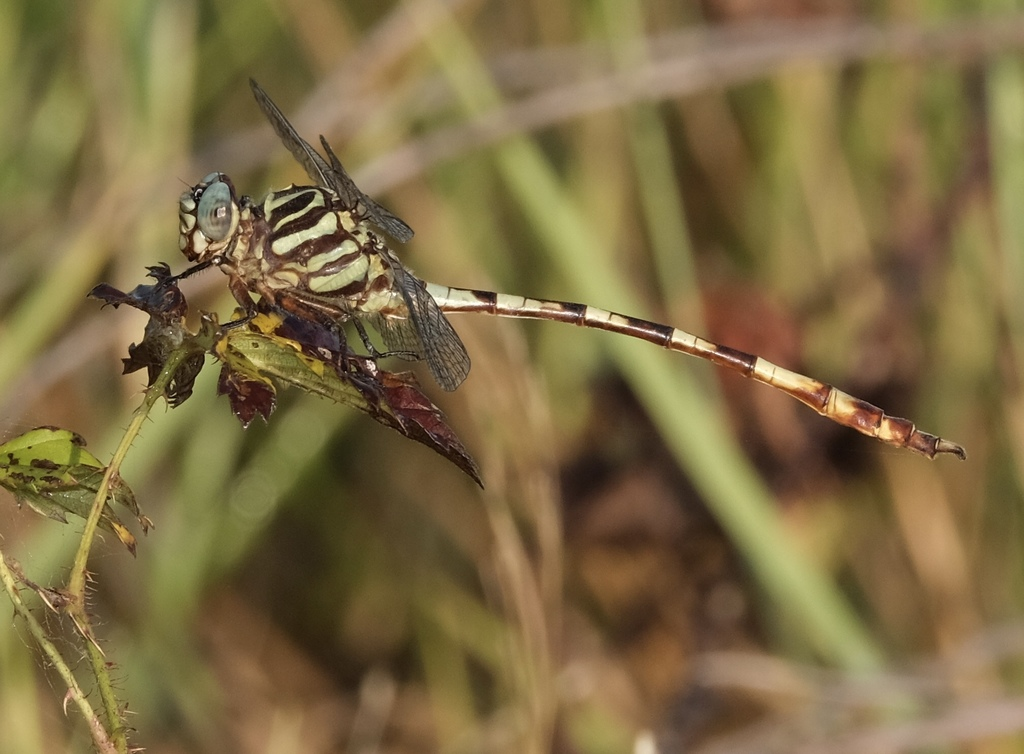 Broad-striped Forceptail (Aphylla angustifolia), 77493, Katy, TX, US